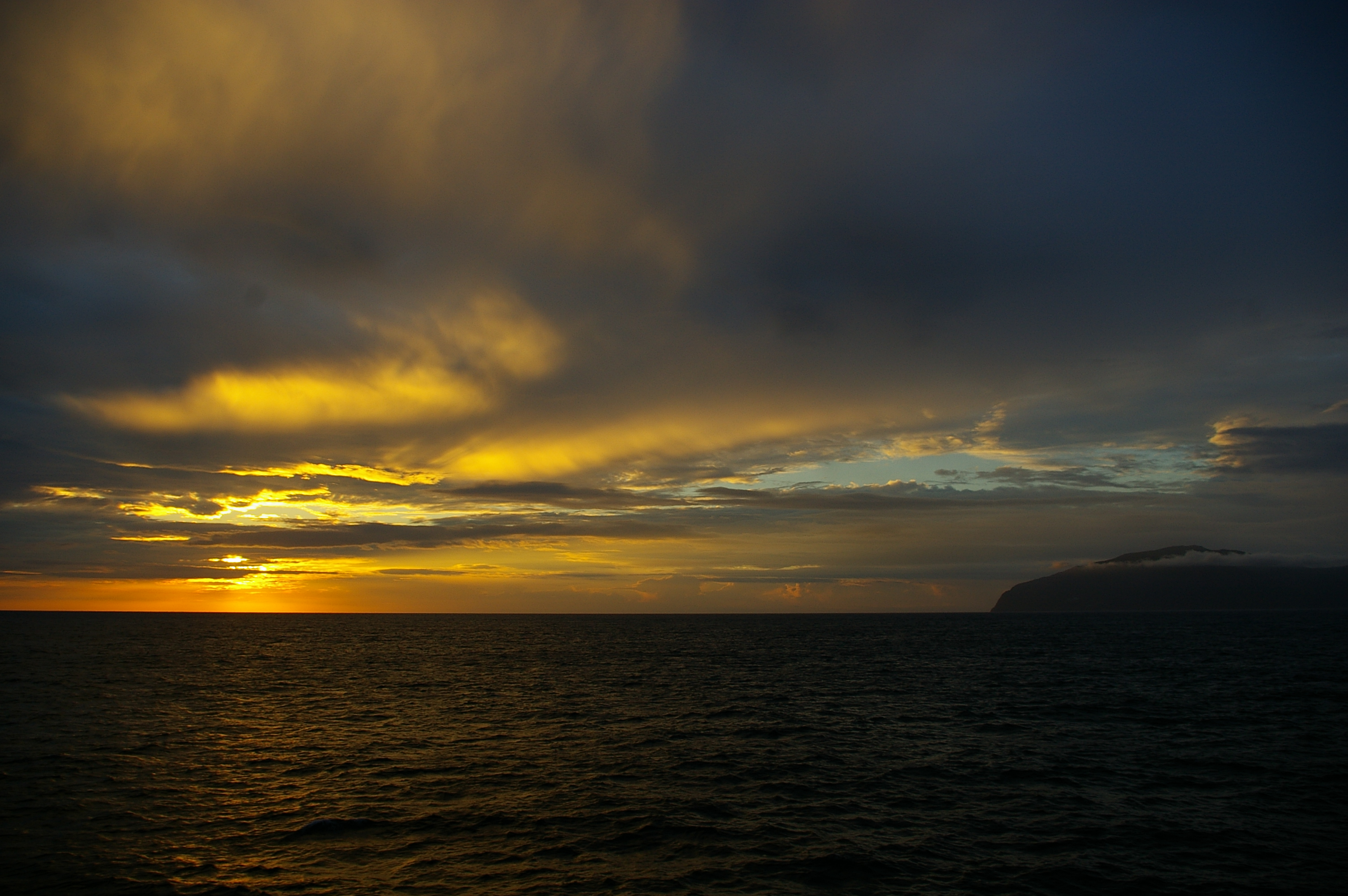 A view of Mikura Island, which lies in the south sea of Tokyo, in the morning